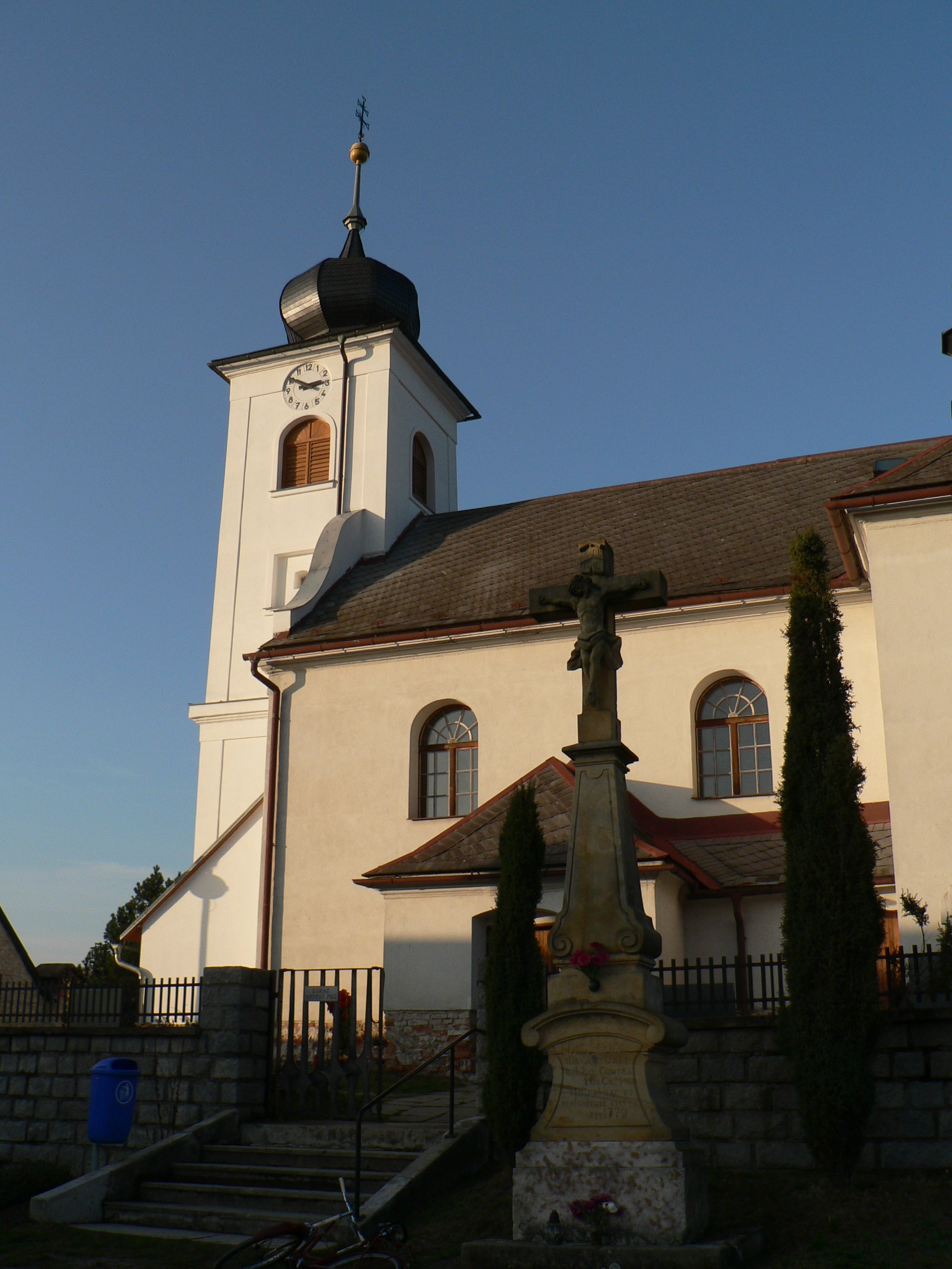 Dlouhomilov, Šumperk District, Czechia. All Saints church.